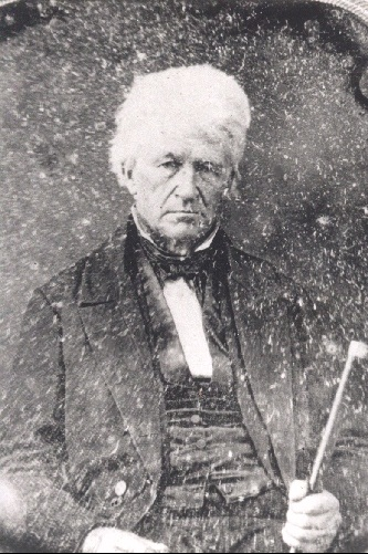 John Sloane, member of Congress, Ohio Secretary of State, and Treasurer of the United States